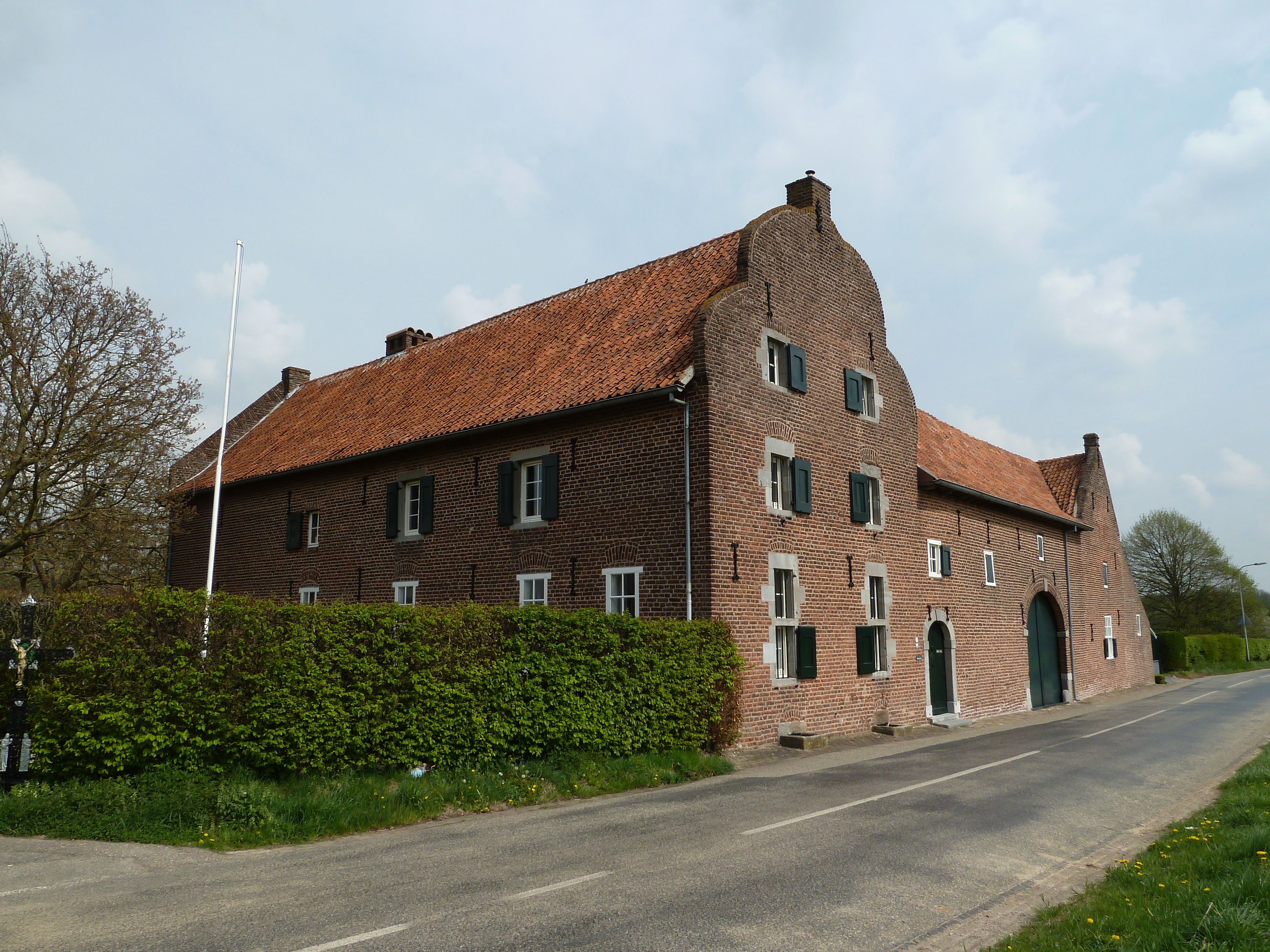 Etzenrade 1, Jabeek, Limburg, the Netherlands